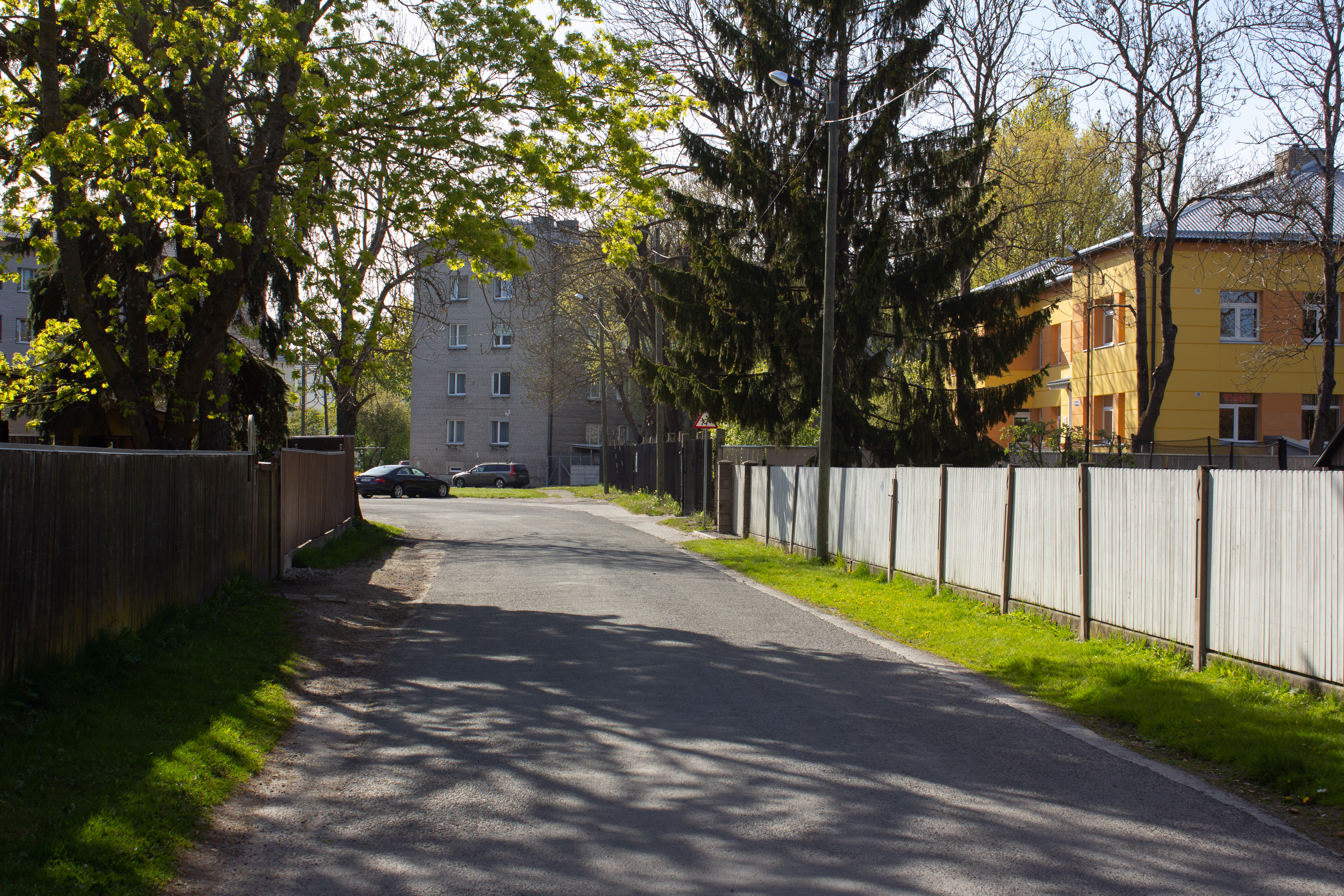 Niidi põik Street in Tallinn (2020-05-23)